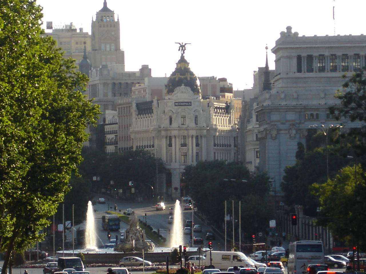 View of the Plaza de Cibeles (square) and Calle de Alcalá (street) in Madrid (Spain). In the background, the Metropolis Building (1910).